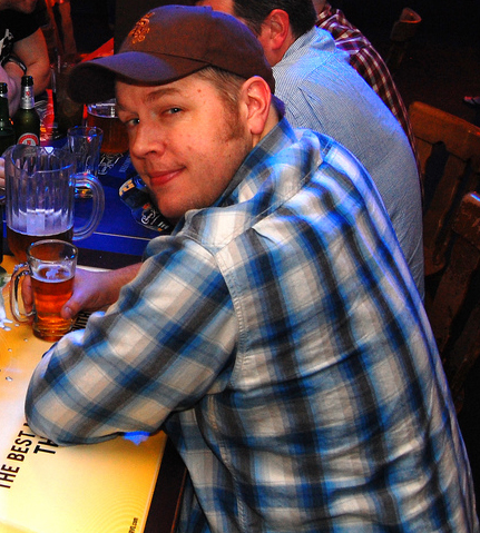 Comic Book Writer B. Clay Moore in Florida for the FX 2009 Show.